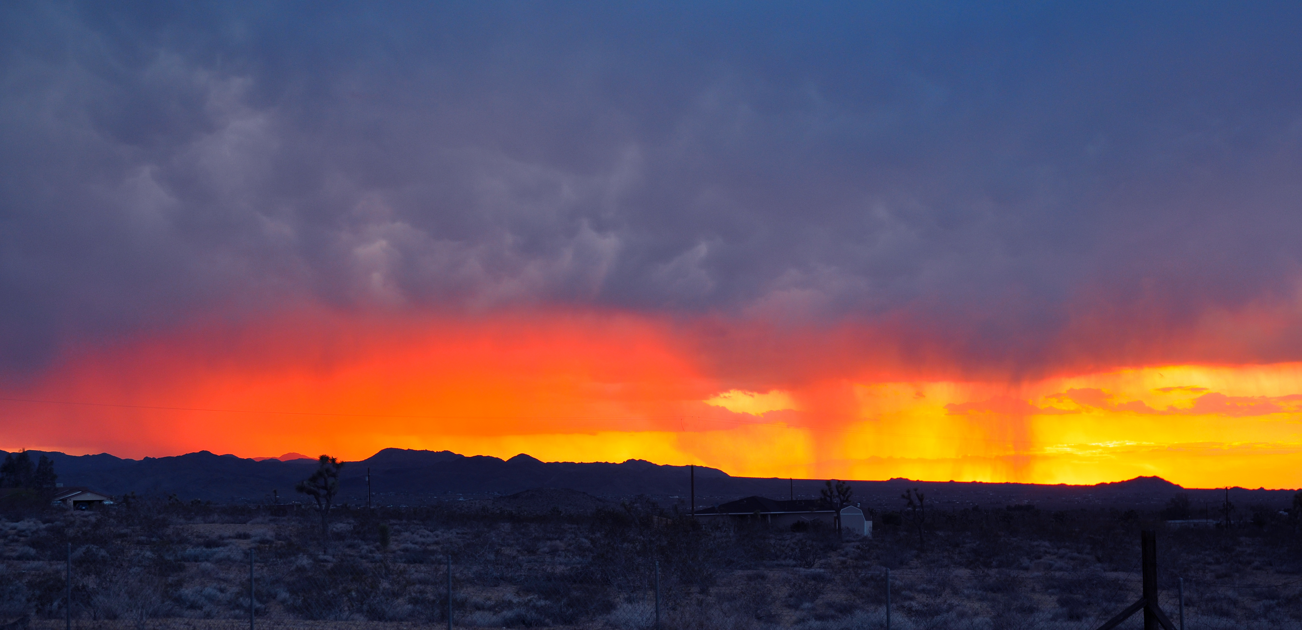 Mojave desert storm arrives at Sunset.